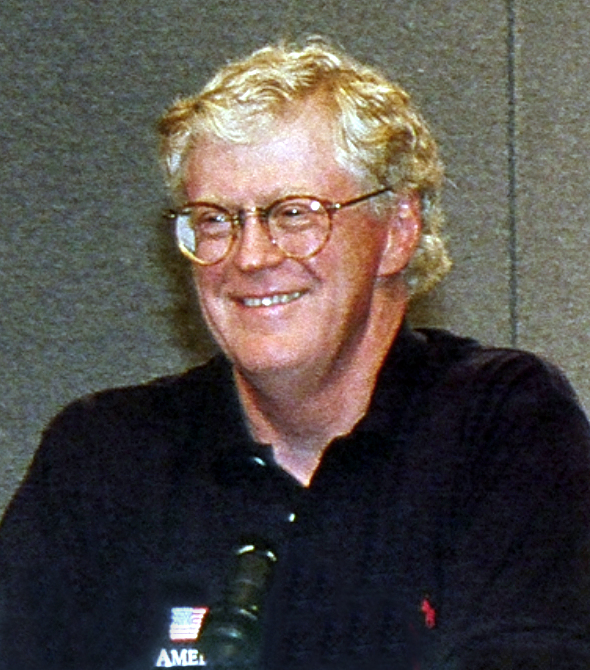 America's Cup sailor Paul Cayard, billionaire syndicate owner of America3 Bill Koch and sailing legend Harry "Buddy" Melges comment on the 1992 races at a press conference attended by international media. Photos by Dale Frost